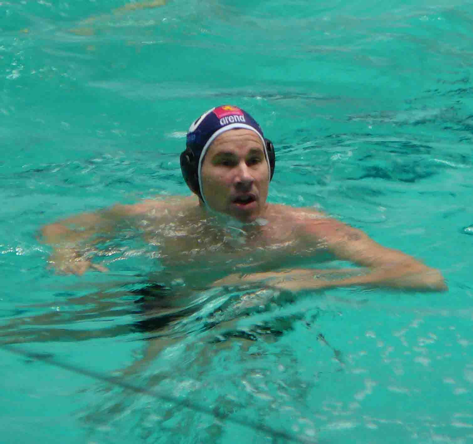 Peter Biros in 2007 in Eger.